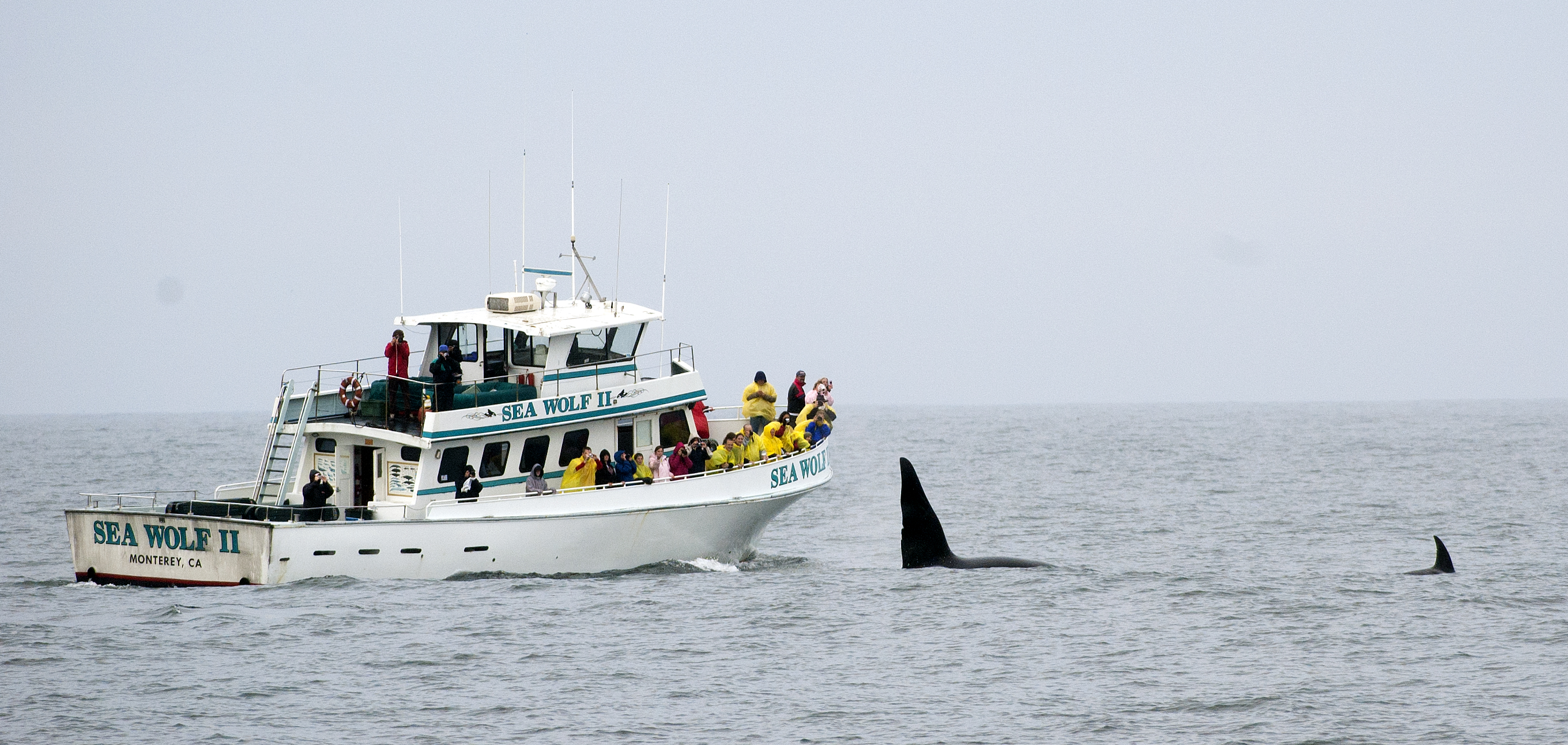 Watching orcas off the coast of Monetery, California. Incidentally, orcas are also called wolves of the sea - so the boat is actually named for the orcas.